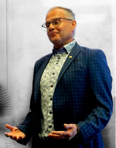 Disclosing that I am a Long supporter having ditched the Greens for greener fields.